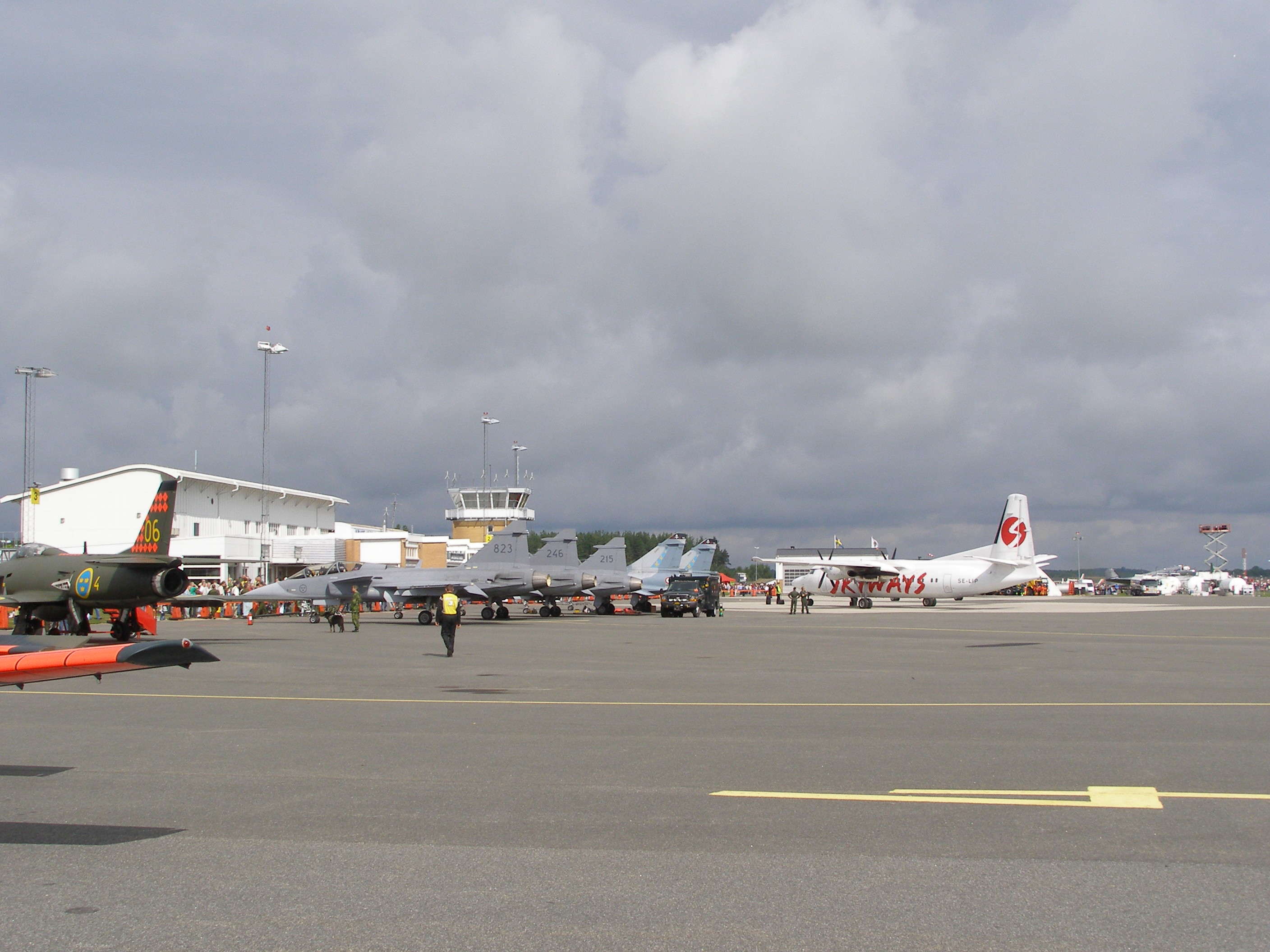 The apron of Kristianstad Airport ( KID / ESMK ) during an airshow.